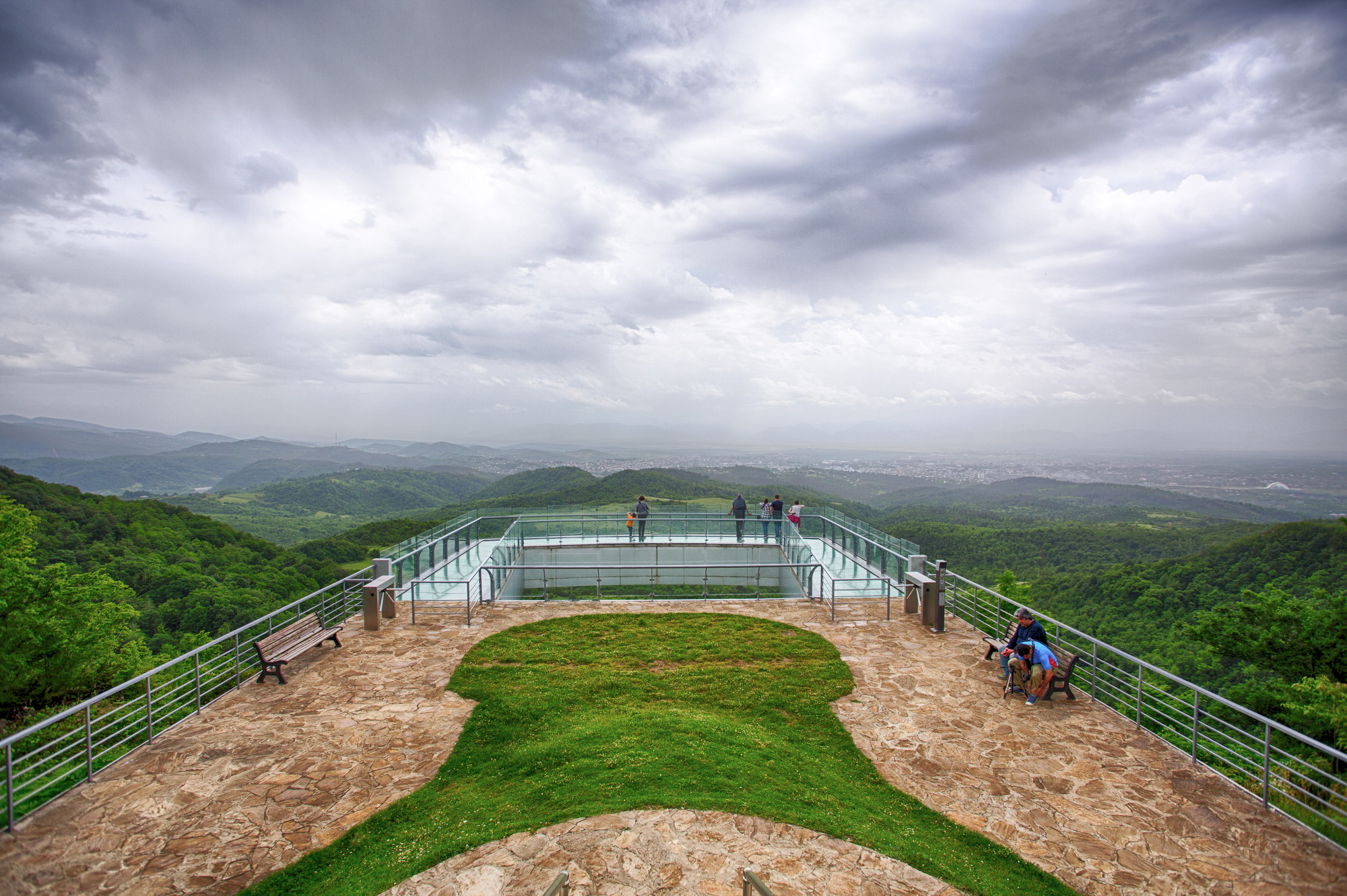 Complex protected area – Imereti Caves Protected Areas is located is west side of Georgia, Imereti region and includes four municipalities – Tskaltubo, Khoni, Terjola and Tkibuli. The total area of Imereti Caves Protected Areas amounts to 504.6 ha and includes Sataplia Nature Reserve (330 ha), Sataplia Managed Reserve (34 ha), Promethe Cave Natural Monuments (46.6 ha) and 17 Natural Monuments. Administrative building is located in Sataplia Managed Reserve. Here is administered Imereti Caves Protected Areas. The administrative building is located on the territory of the Satapliya. Out of Imereti Region Protected Areas is being administered. Remarkably, Imereti Caved Protected Areas Administration has one of the most well-arranged infrastructure on Sataplia Managed Reserve and Promethe Natural Monument. Sataplia Managed Reserve Infrastructure includes visitors center, conservation building of dinosaur footprint, exhibition hall, glass panoramic view-point, cafes, souvenir shops, well-arranged cave and marked trails. Visitors can observe fossilized dinosaur footprints, karst caves, rock trail, Colchis forest, panoramic viewpoints.